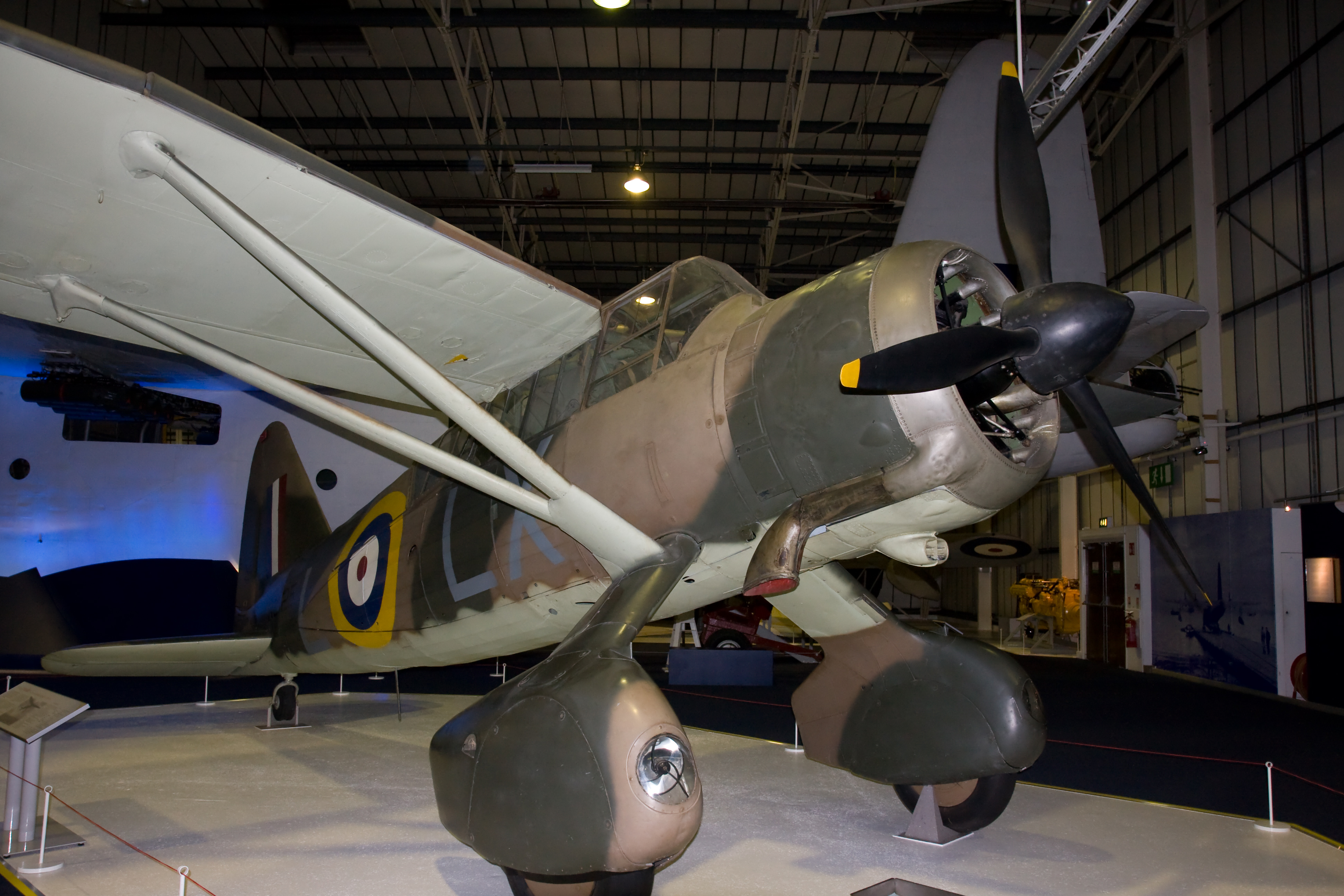 Westland Lysander III front view (R9125) from RAF Museum London, Battle of Britain Hall